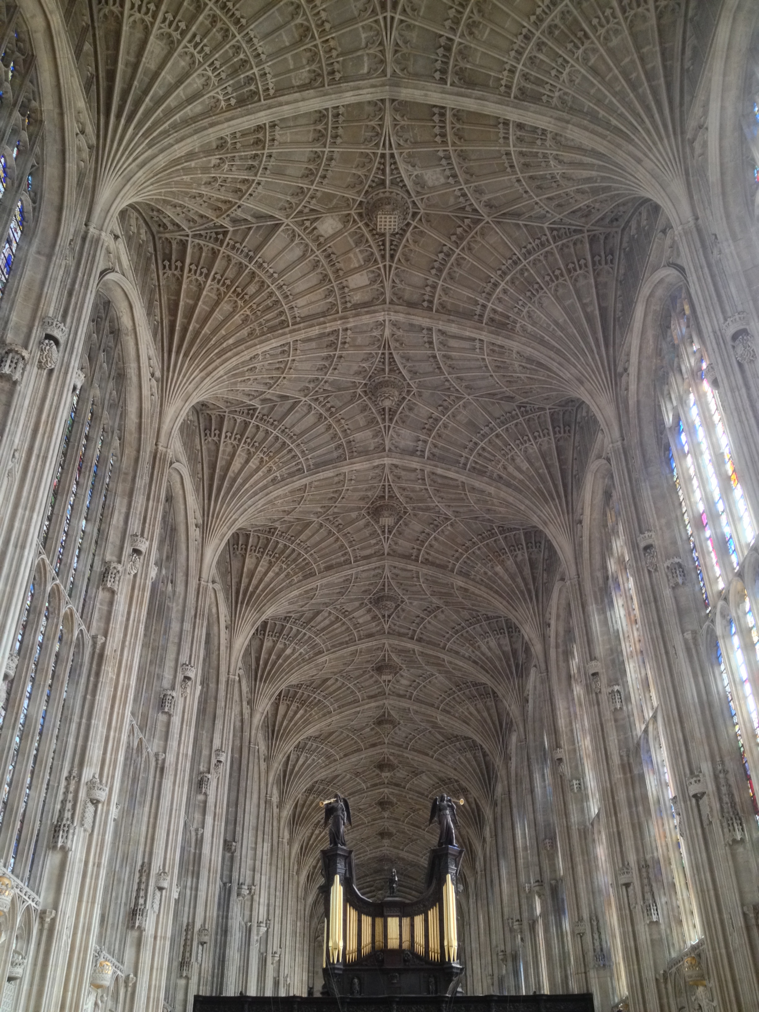 Cambridge King's College Chapel